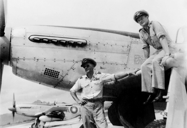 Iwakuni, Japan. Informal portrait of two brothers who are members of the No. 82 (Fighter) Squadron, British Commonwealth Occupation Force (BCOF) in front of a Mustang aircraft. Flight Lieutenant (Flt Lt) Venn Williams is on the left, leaning on the aircraft, while Flt Lt Cliff Williams is sitting on the wing.